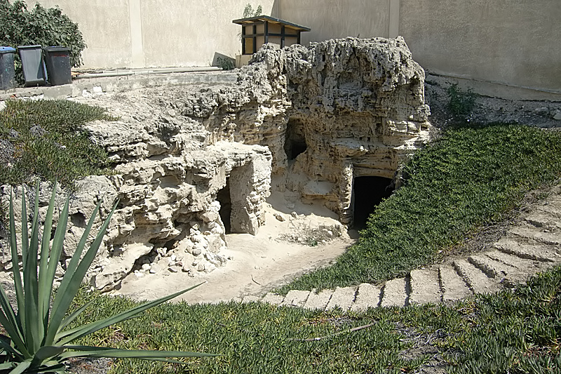 South-east corner tombs of Anfushi, Alexandria, Egypt